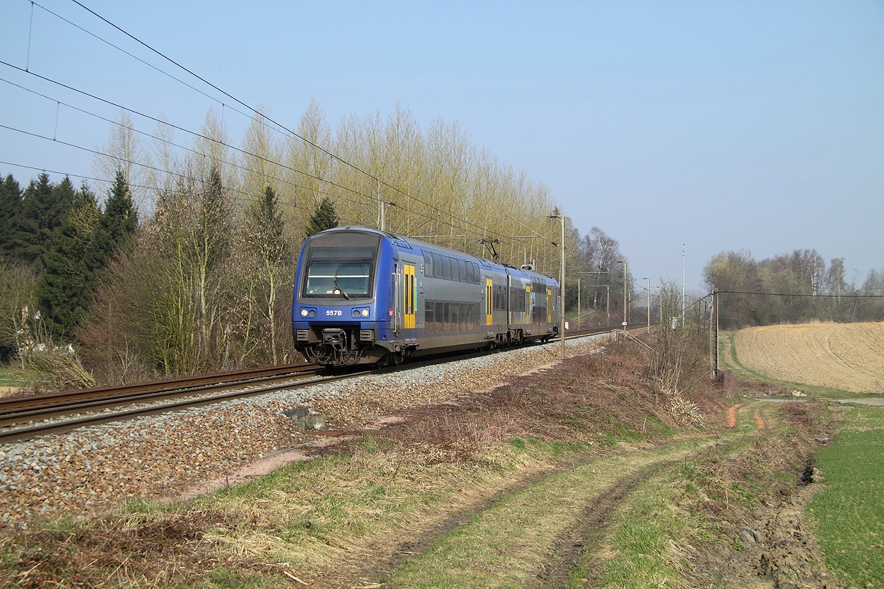 Z 23557 - 2011-03-23 - Busigny